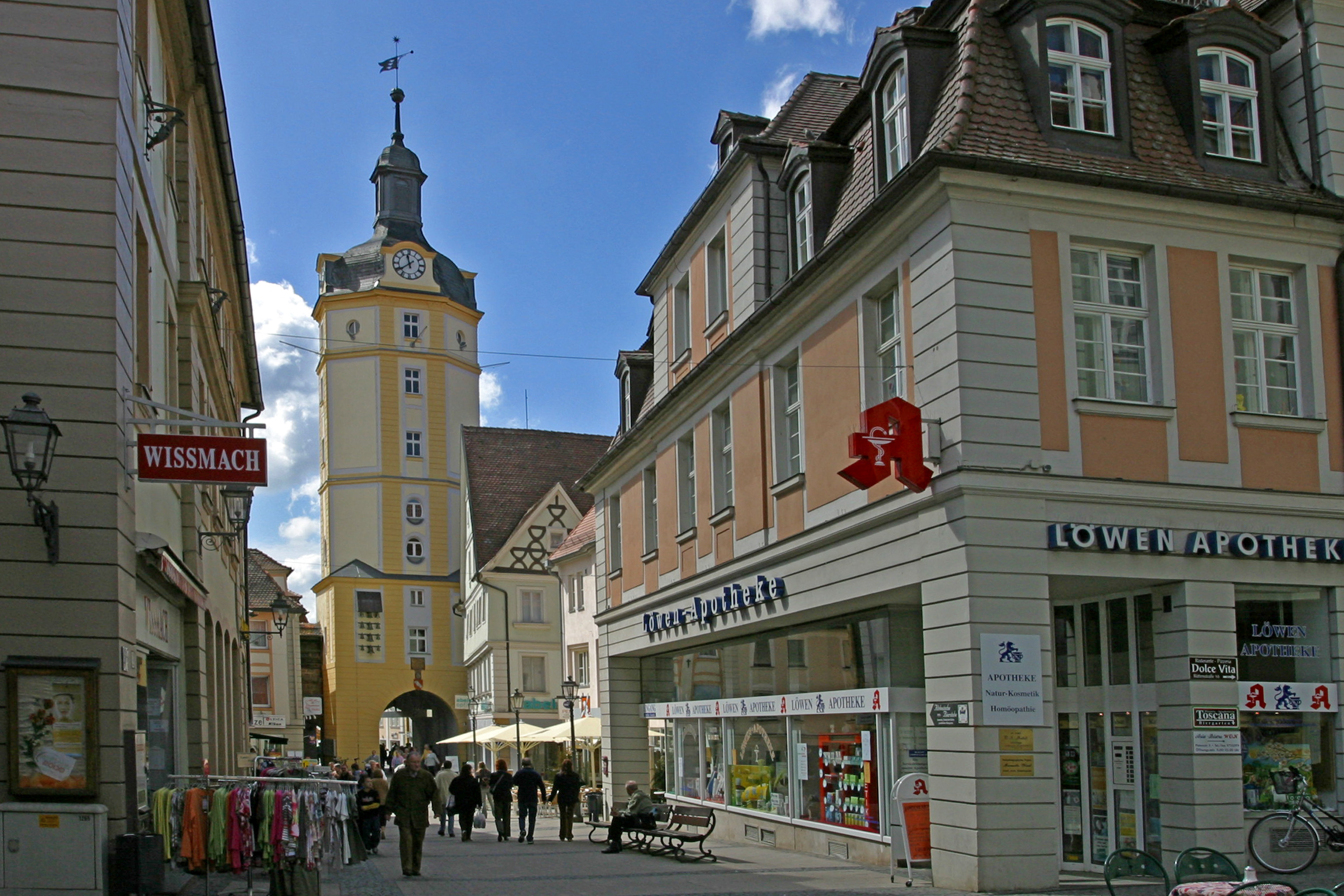 Picture from Ansbach (Bayern - Germany)